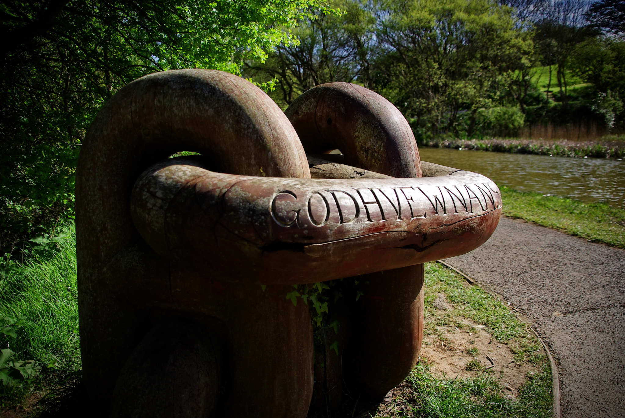 500px provided description: Beside the last sea canal in England, stands a series of wooden chain links. The links are engraved with old Cornish place names, linking the past and the present with a maritime touch. [#spring ,#color ,#water ,#travel ,#blue ,#vacation ,#tree ,#beautiful ,#colour ,#grass ,#uk ,#england ,#art ,#green ,#wood ,#sculpture ,#earth ,#canal ,#link ,#sign ,#holiday ,#wooden ,#chain ,#environment ,#cornwall ,#bude ,#signpost ,#linked ,#joined ,#godhvewnans]